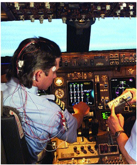 EEGs probes during a fatigue study.